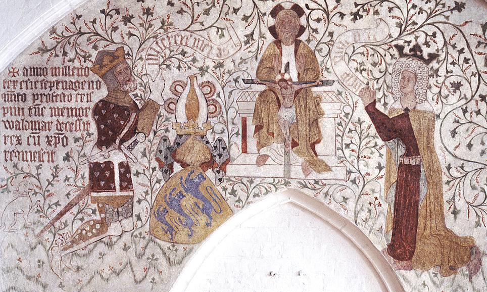 King Waldemar IV of Denmark (Valdemar Atterdag, left) and his Queen Haelwig (Helvig af Slesvig) shown on 14th century fresco in Næstved's Saint Peter's Church (Sankt Peders Kirke). The fresco was created shortly after the king's death, and rediscovered in the late 19th century. The three lions in the king's coat of arms are 19th century reconstructions based on a preserved seal used by king Valdemar.